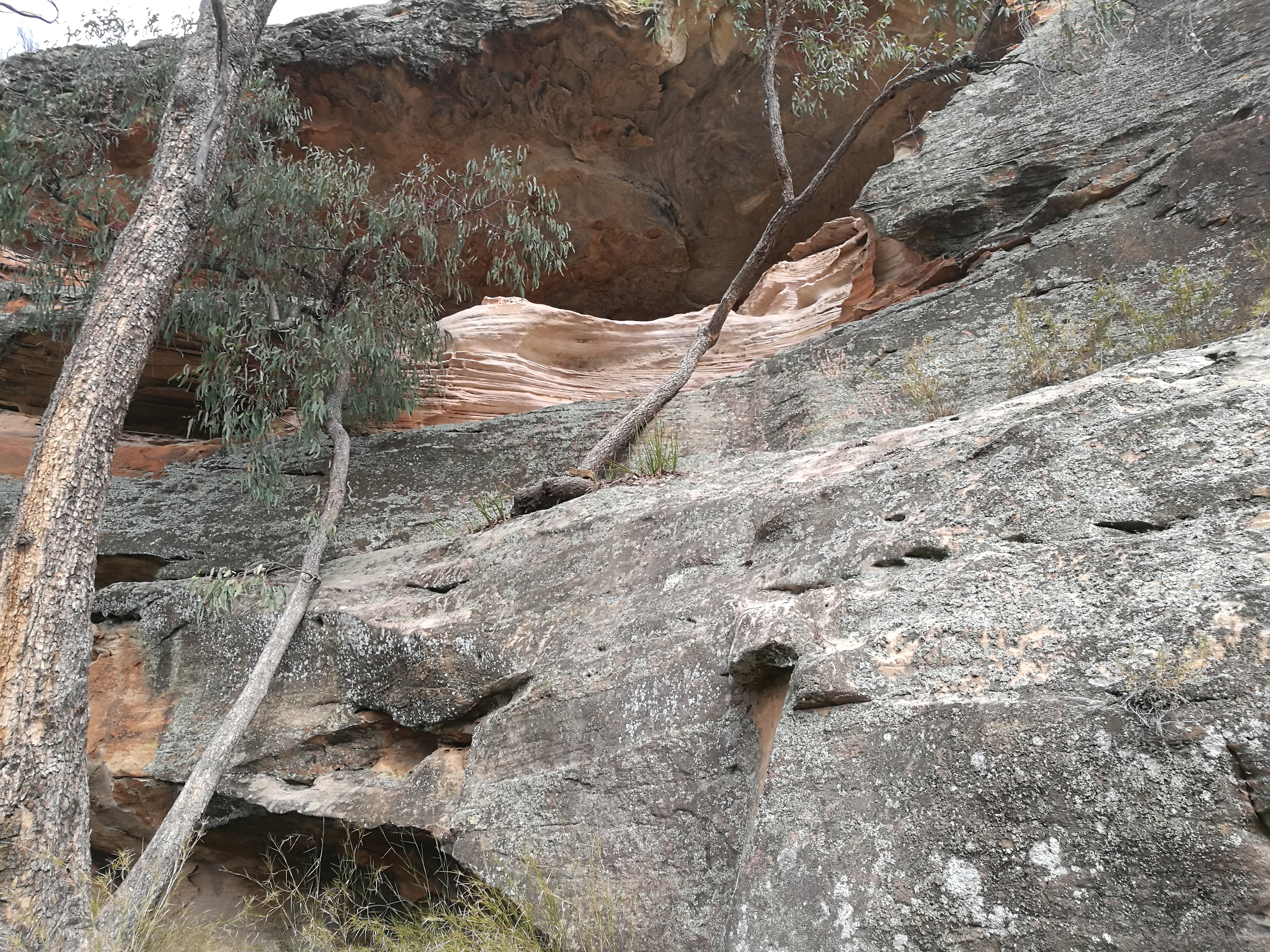 Sandstone Caves, Sandstone Caves Walking Track, Pilliga Nature Reserve